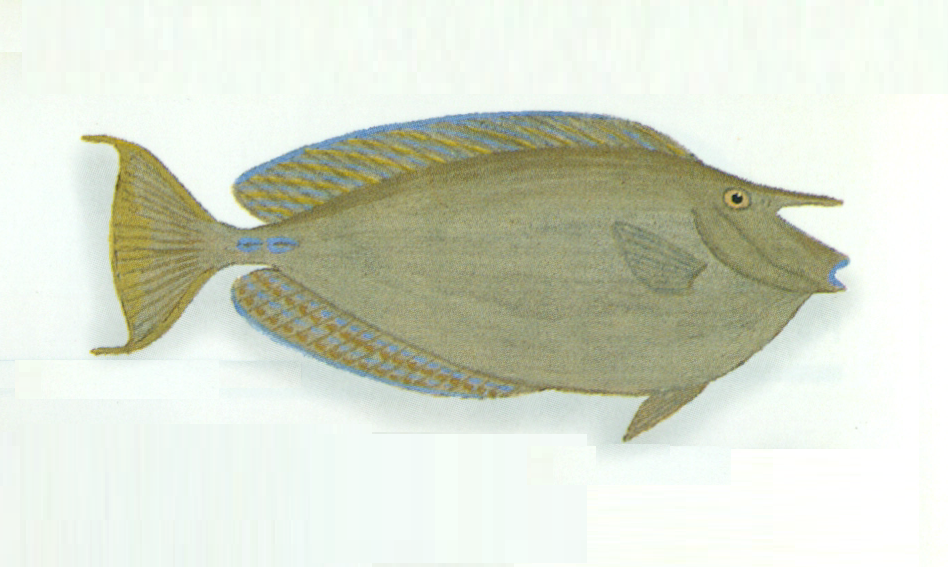 Naso_unicornis